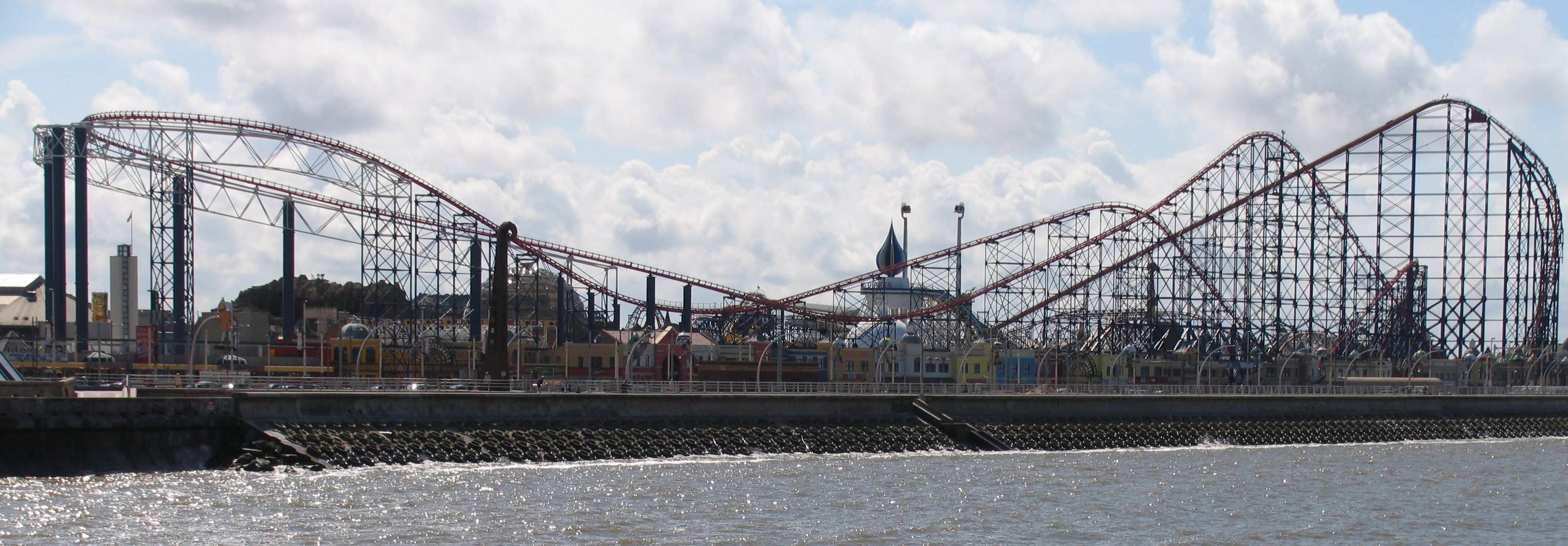 Roller coaster at Blackpool Pleasure Beach seen from South Pier